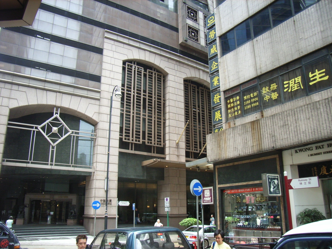 Sheung Wan 上環 User:Mad2006 is the photo author.